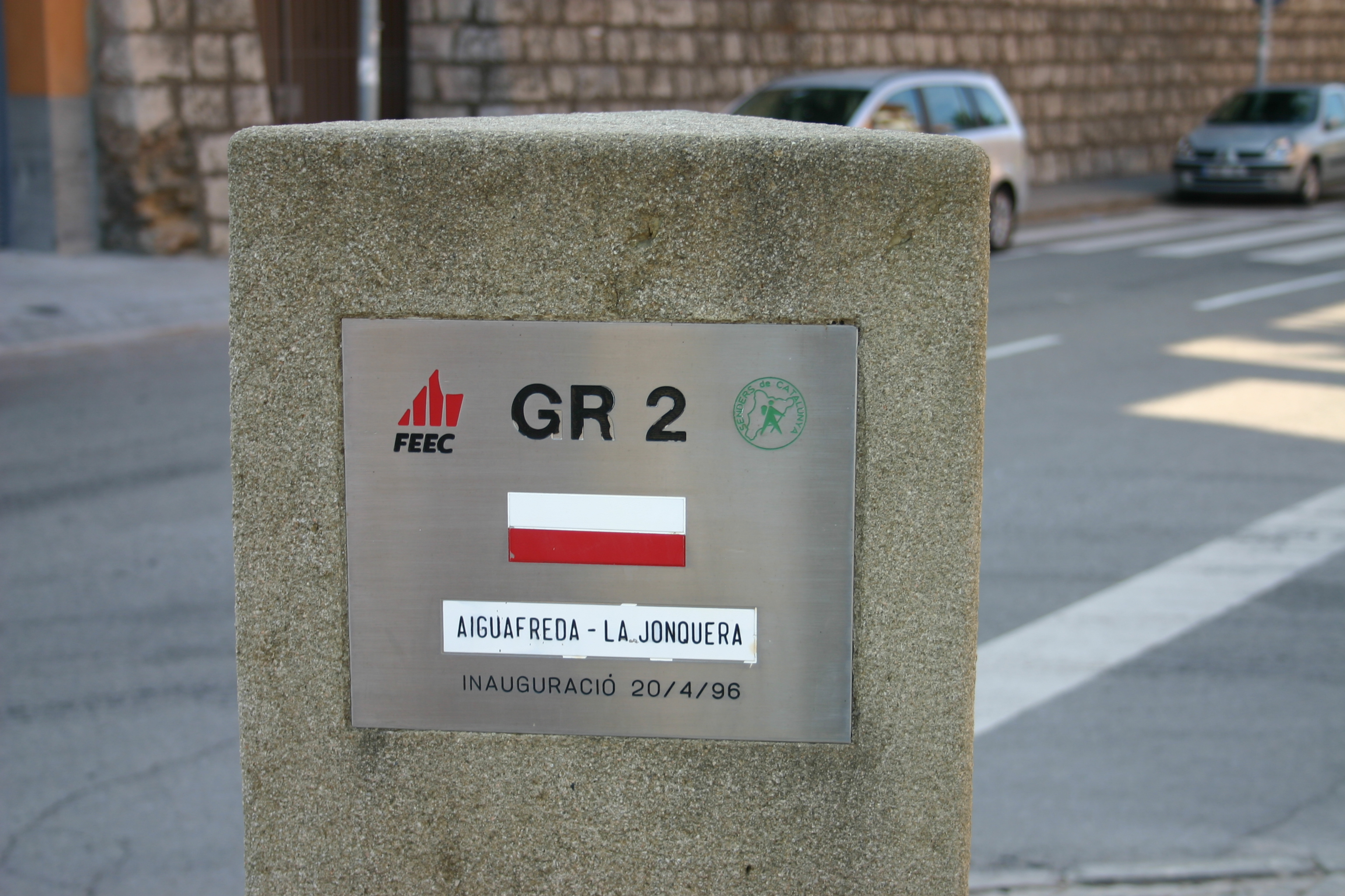 GR-2 Aiguafreda-La Jonquera